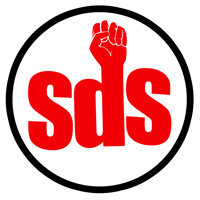 Logo for Students for a Democratic Society (SDS). Black circle around red block letters "sds" with a clenched fist on the letter "d".